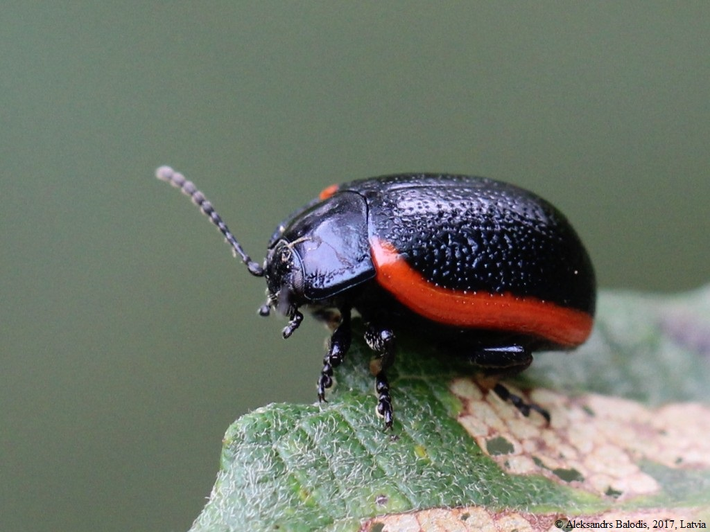 Chrysolina sanguinolenta